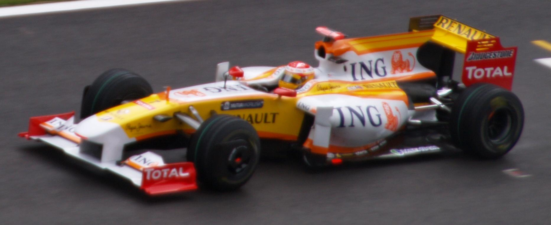 Fernando Alonso driving for Renault F1 at the 2009 Belgian Grand Prix.